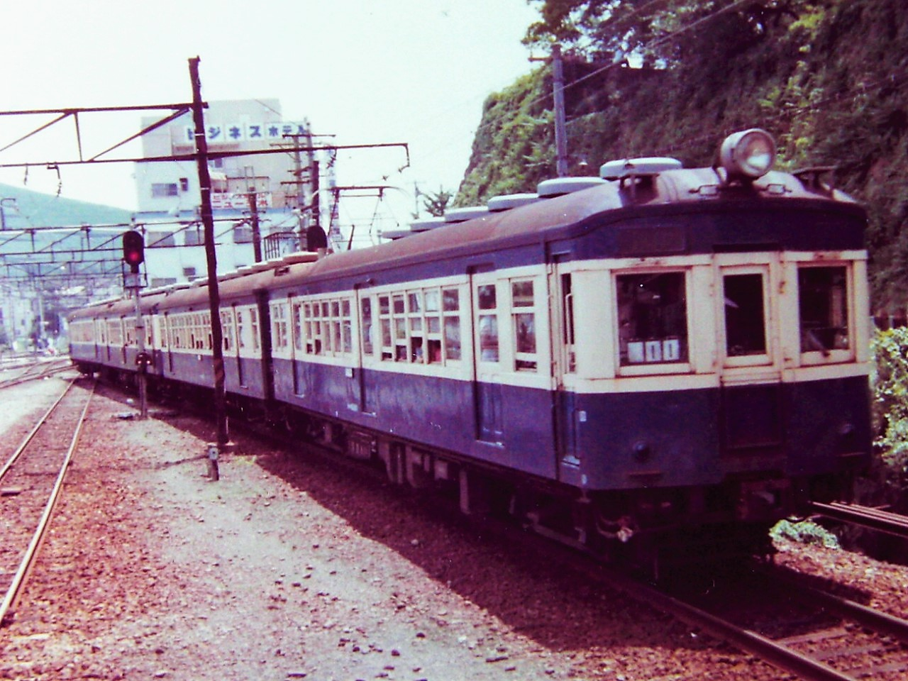 A JNR 40 series EMU led by KuMoHa 60800 approaching Kofu Station